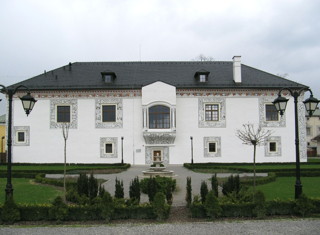 Wedding palace in Bytča from 1601 after restoration